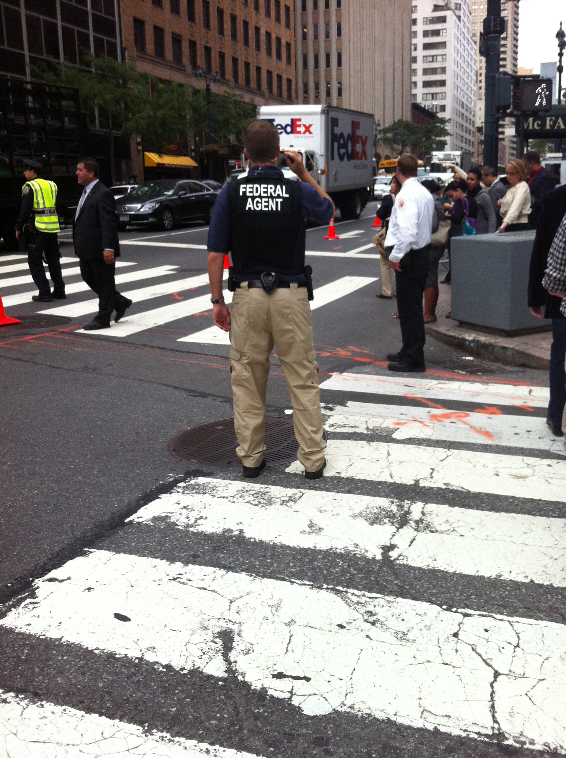 A federal agent in New York City, 2012